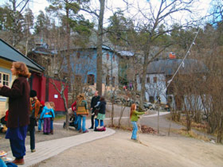 Solvikskolan